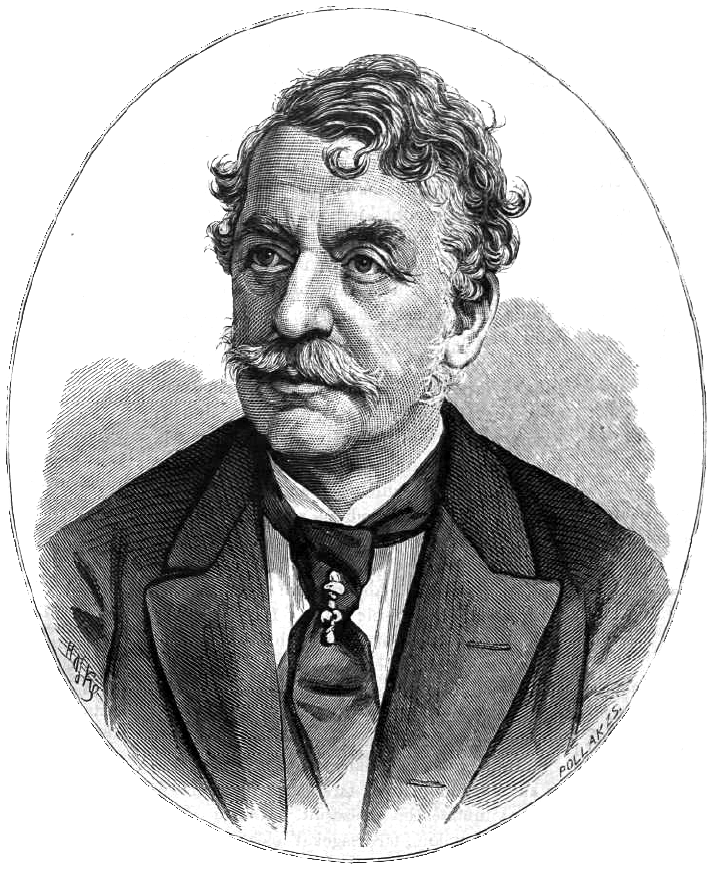 József Lenhossék (1818–1888) Hungarian anatomist, anthropologist